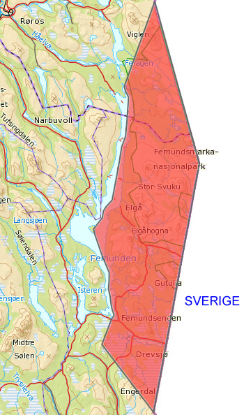 Gain of Femundsmarka 1751